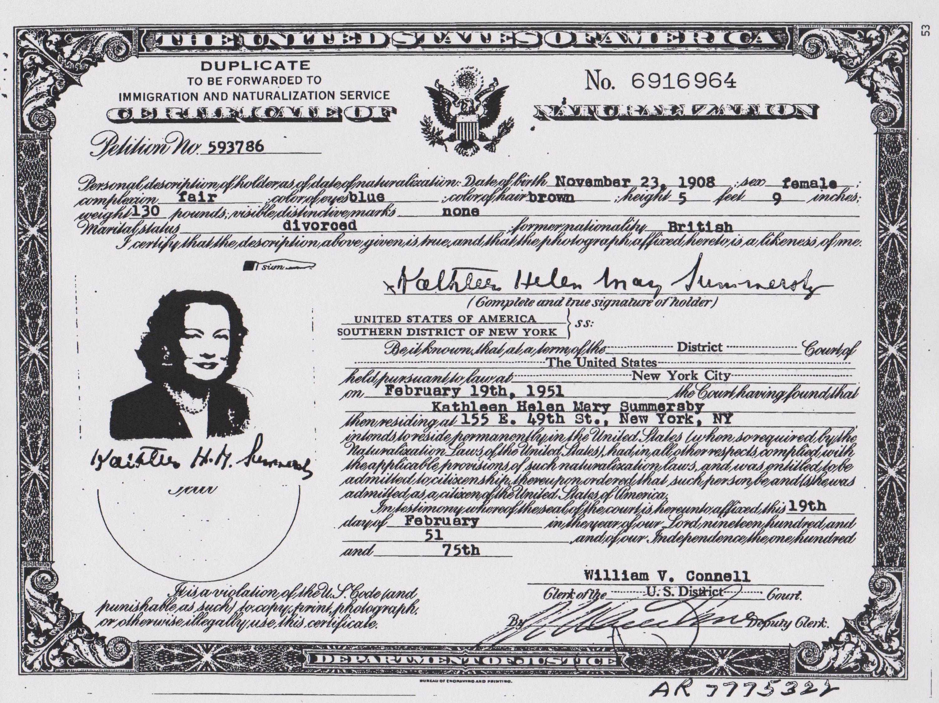 The US naturalisation certificate of General Eisenhower's wartime driver, Kay Summersby